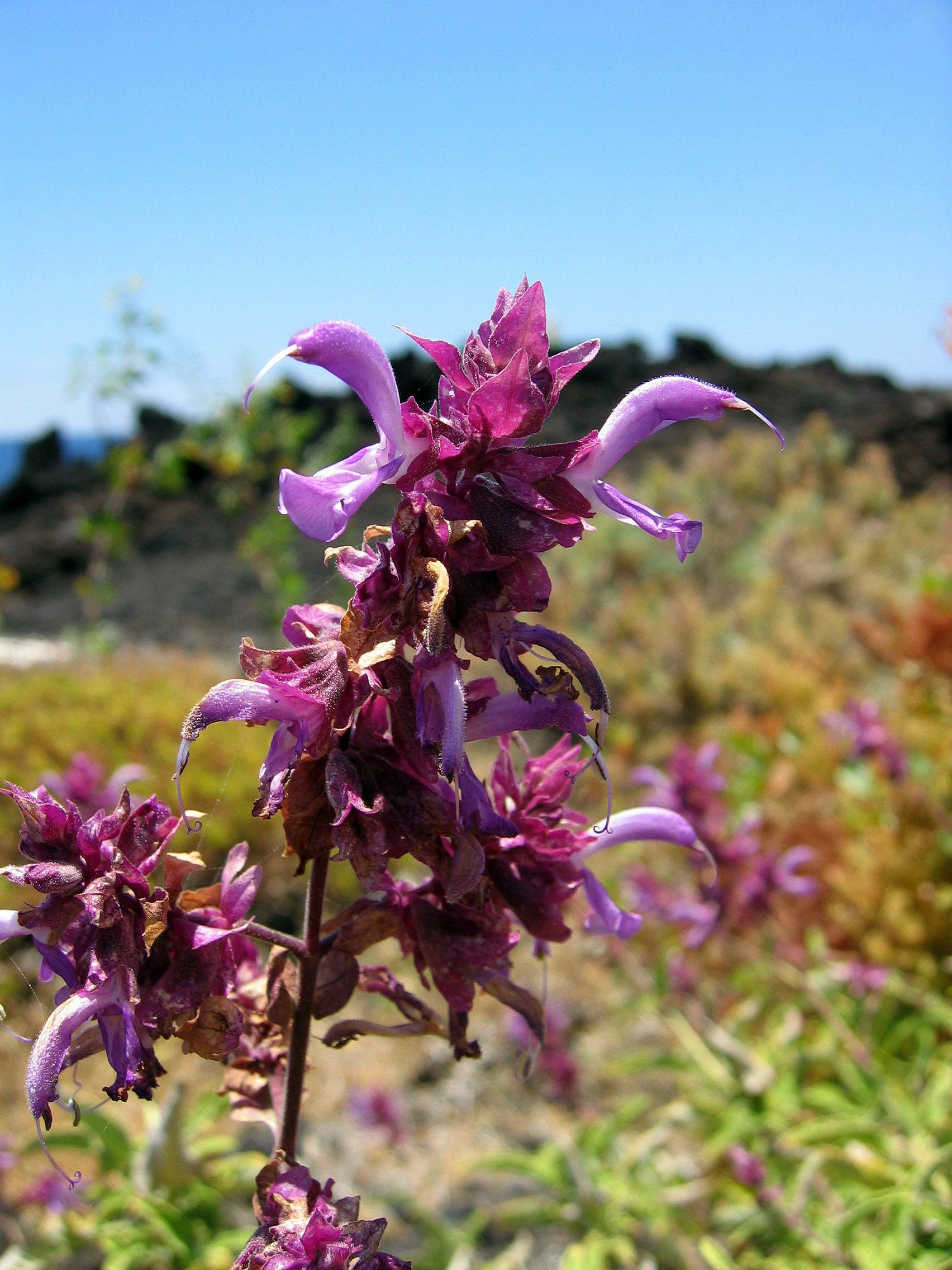 Salvia canariensis, Coast of Los Cancajos, La Palma, Spain